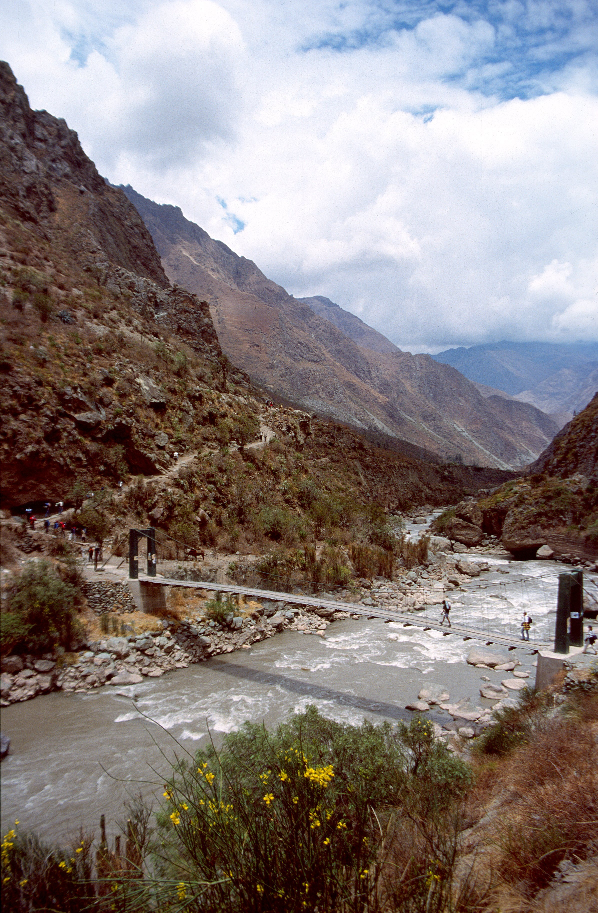 Inca trail from Cusco to Machu Picchu in Perú. Day 1. Start of the trail in Cori-huayra-china, near km. 88 of the railroad Cusco-Quillabamba. Crossing the Urubamba river.